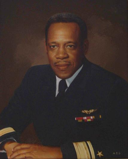 Portrait of Benjamin Thurman Hacker.